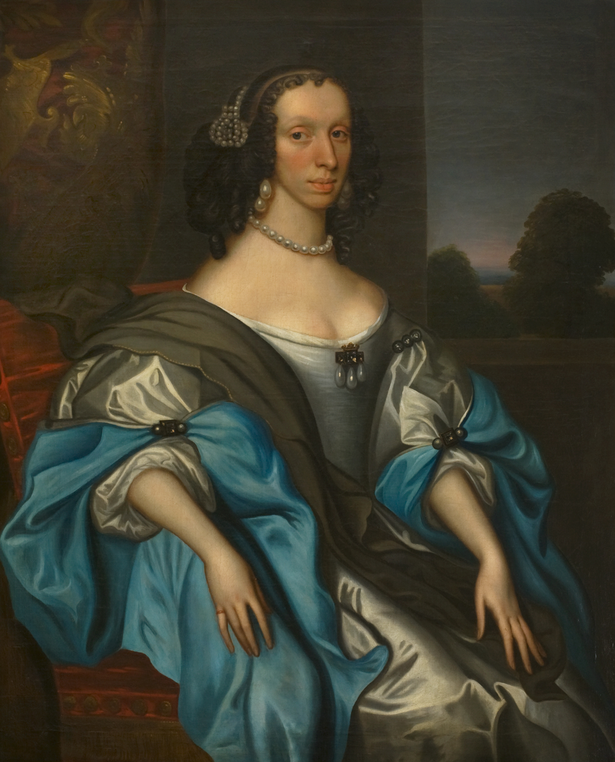 Portrait of Ann, Duchess of Hamilton [d.1716], daughter of James, first Duke of Hamilton. Three-quarter length portrait with sitter in a grey satin dress with blue and grey wrap, pearl necklace, earrings and head-dress. Sits on red upholstered chair with with window to the right and acanthus leaves to left. Oil on canvas, in gilt and gesso frame moulded with scrolling ribbon and acanthus, scrolled 'Ann, Duke of Hamilton' banner on top of frame.